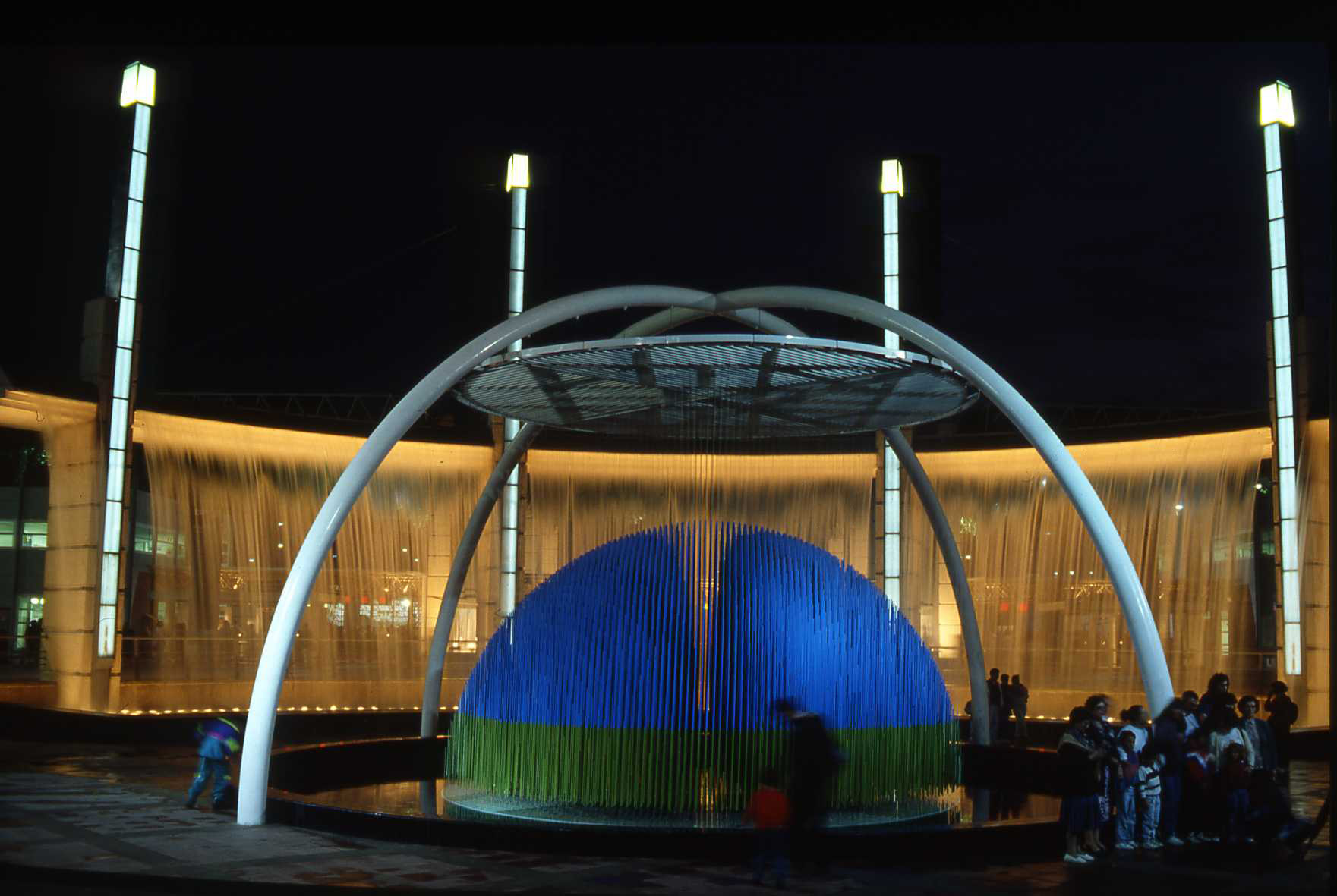 Universal exposition in Seville.